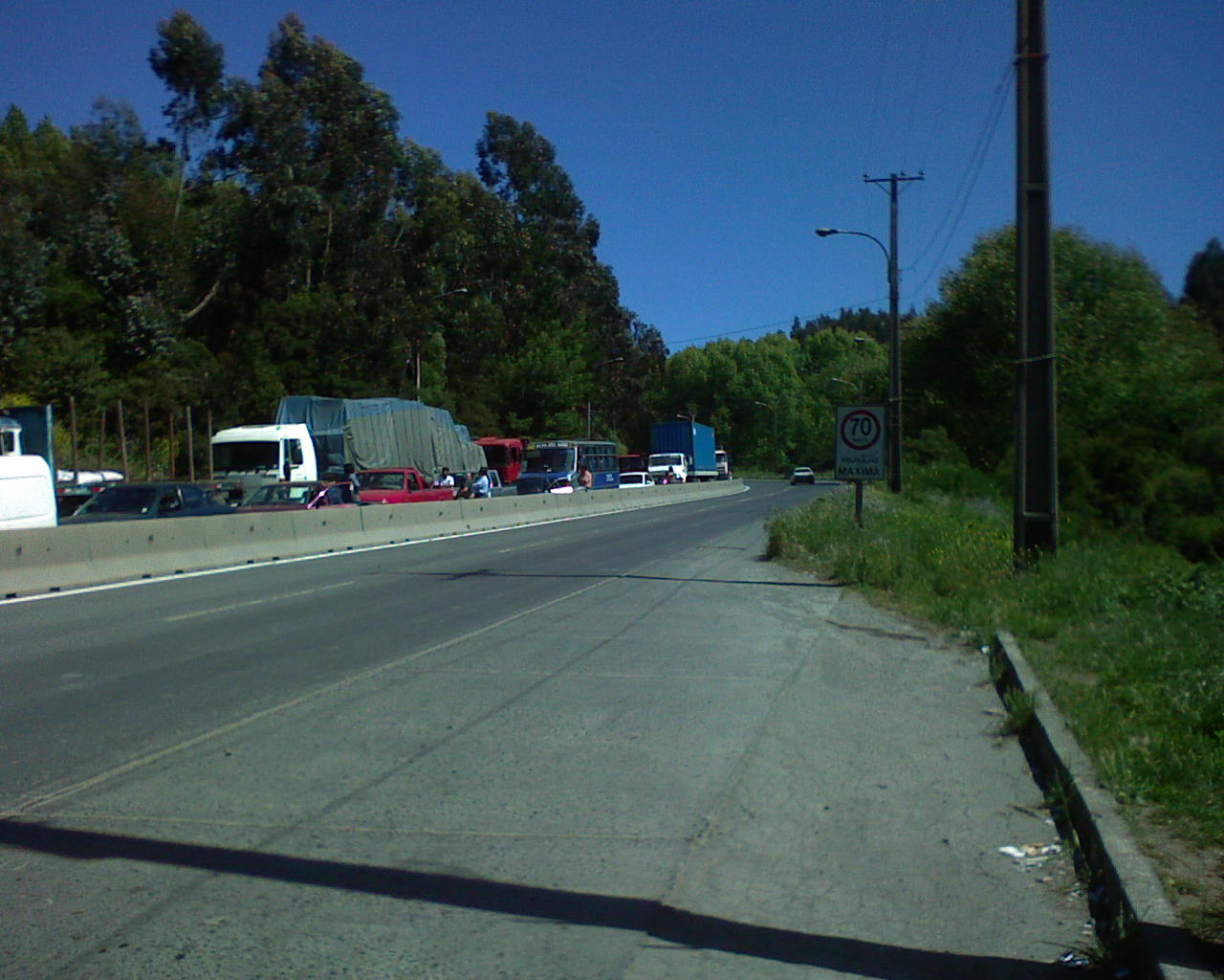 Ruta 150 - Traffic